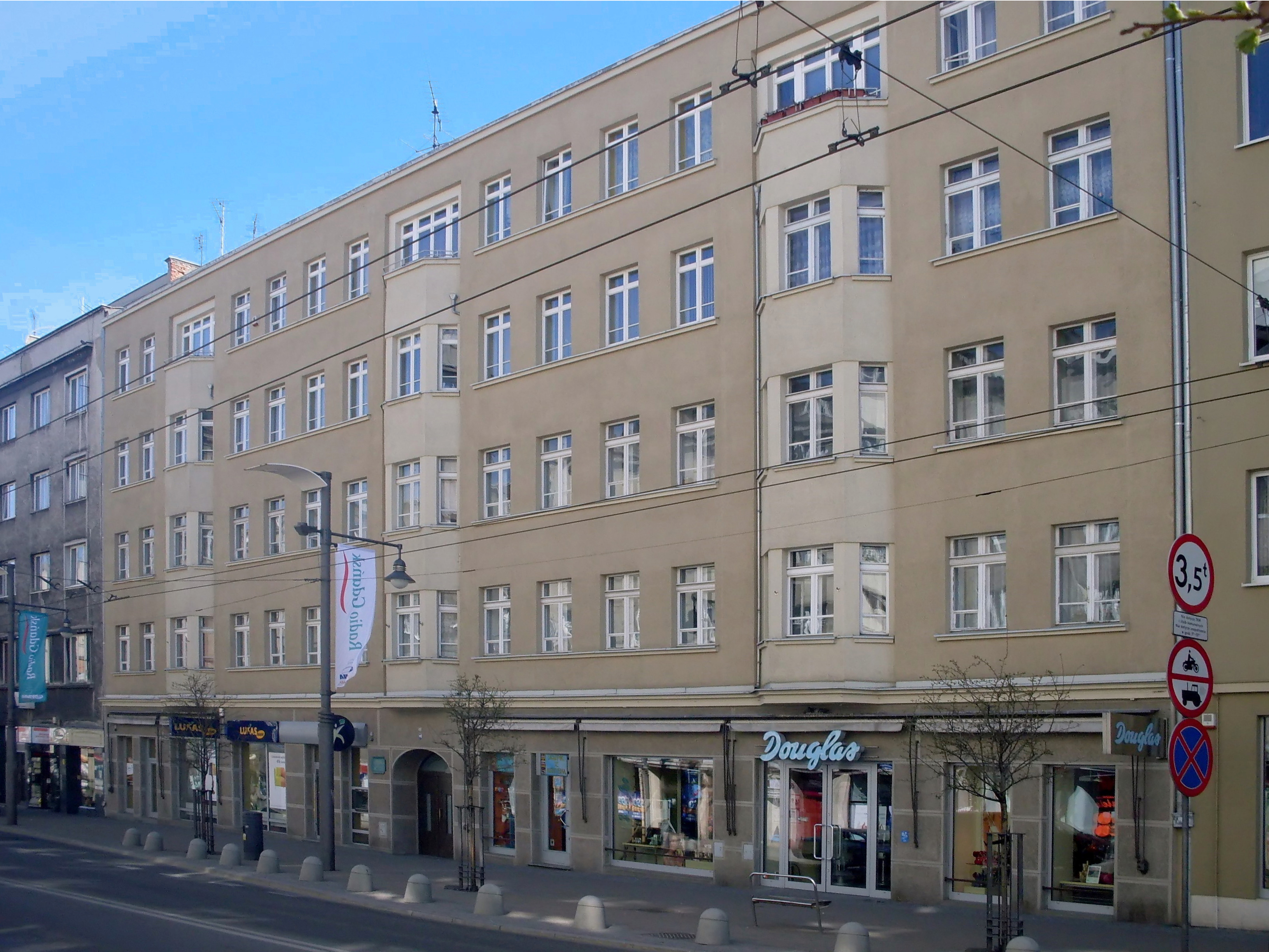 Tenement of barrister Stankiewicz at ulica Świętojańska in Gdynia.